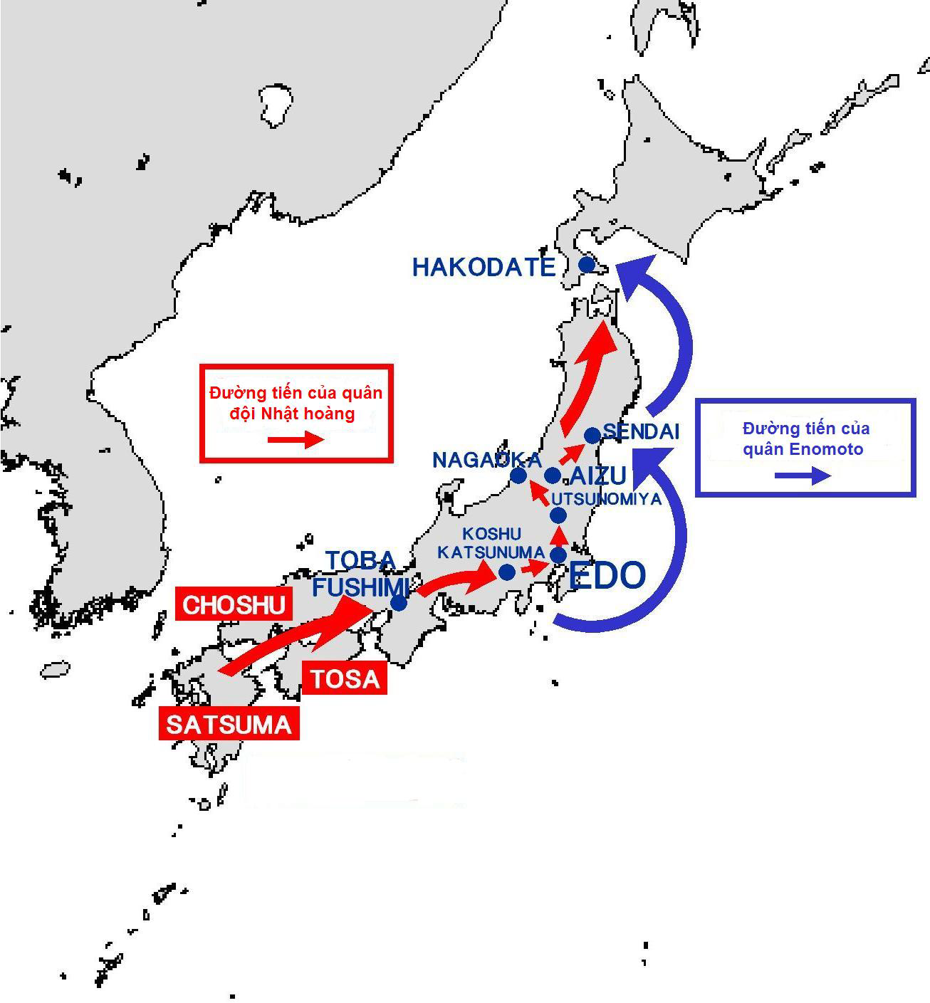 Vietnamese version of Image:BoshinCampaignMap.jpg